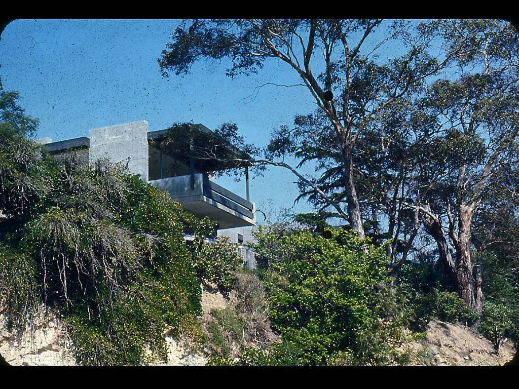 Townhouses - 76 Molesworth Street, Kew - Gunn,Graeme